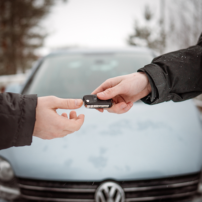 Vuokraa autoa naapurista